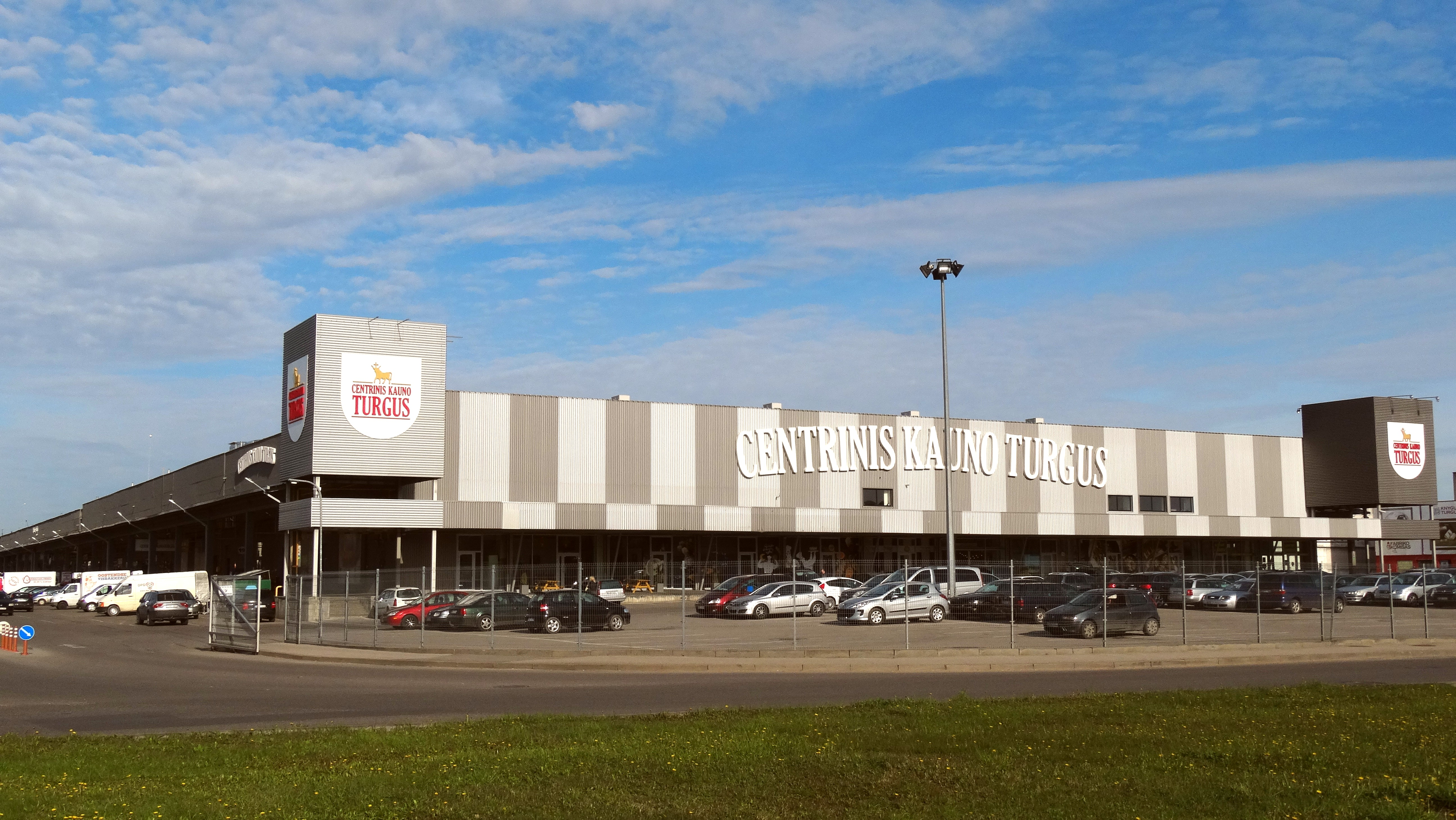 Urmas market, Kaunas, Lithuania